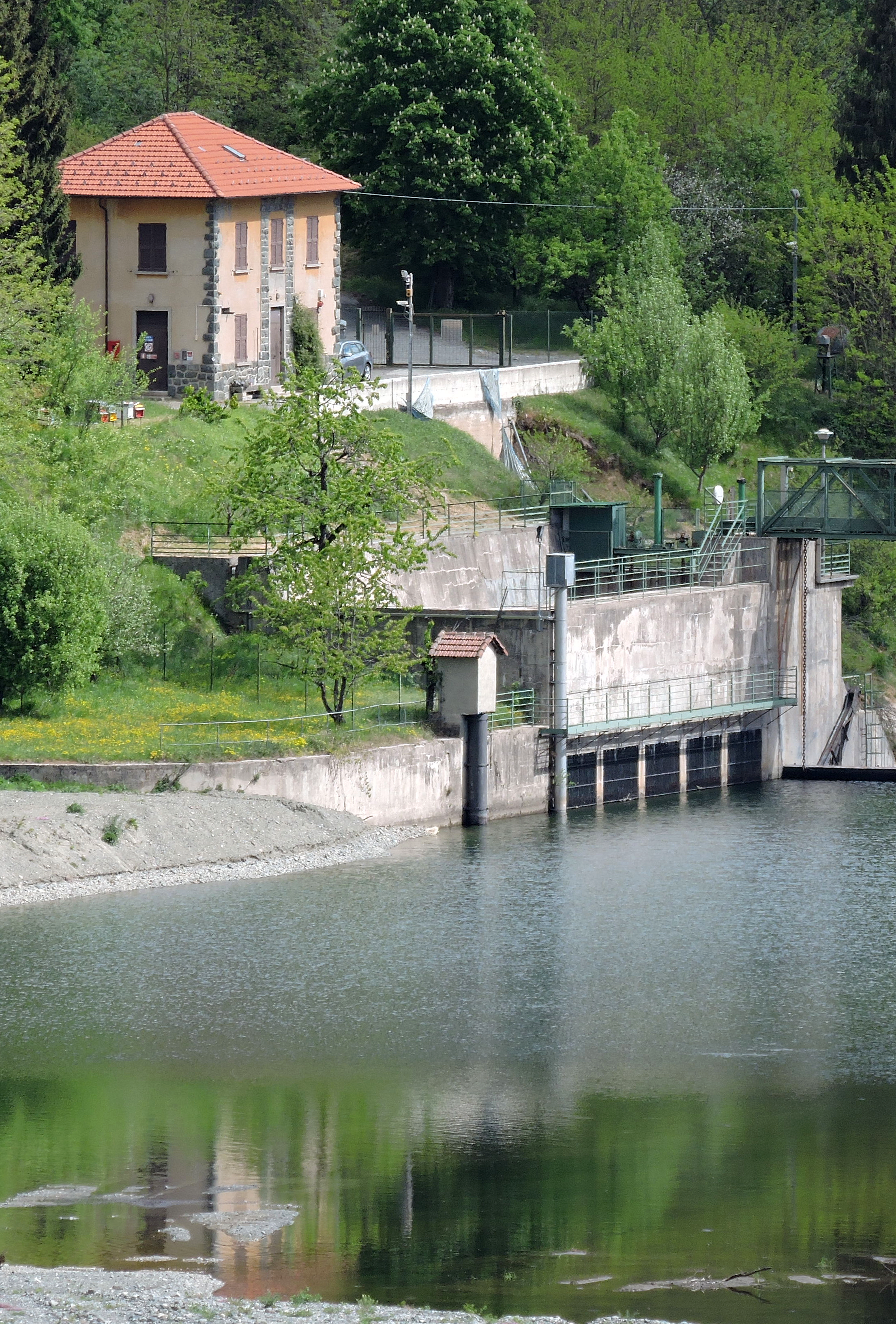 Lago di Ortiglieto (GE/AL, Italy): datail of the dam